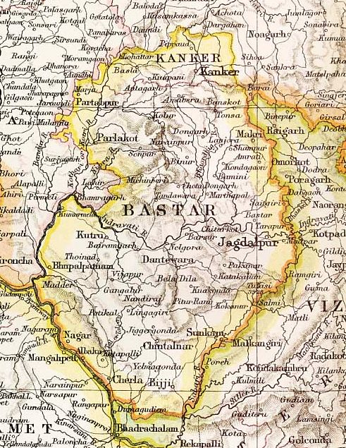 Bastar-Kanker map section. Imperial Gazetteer of India